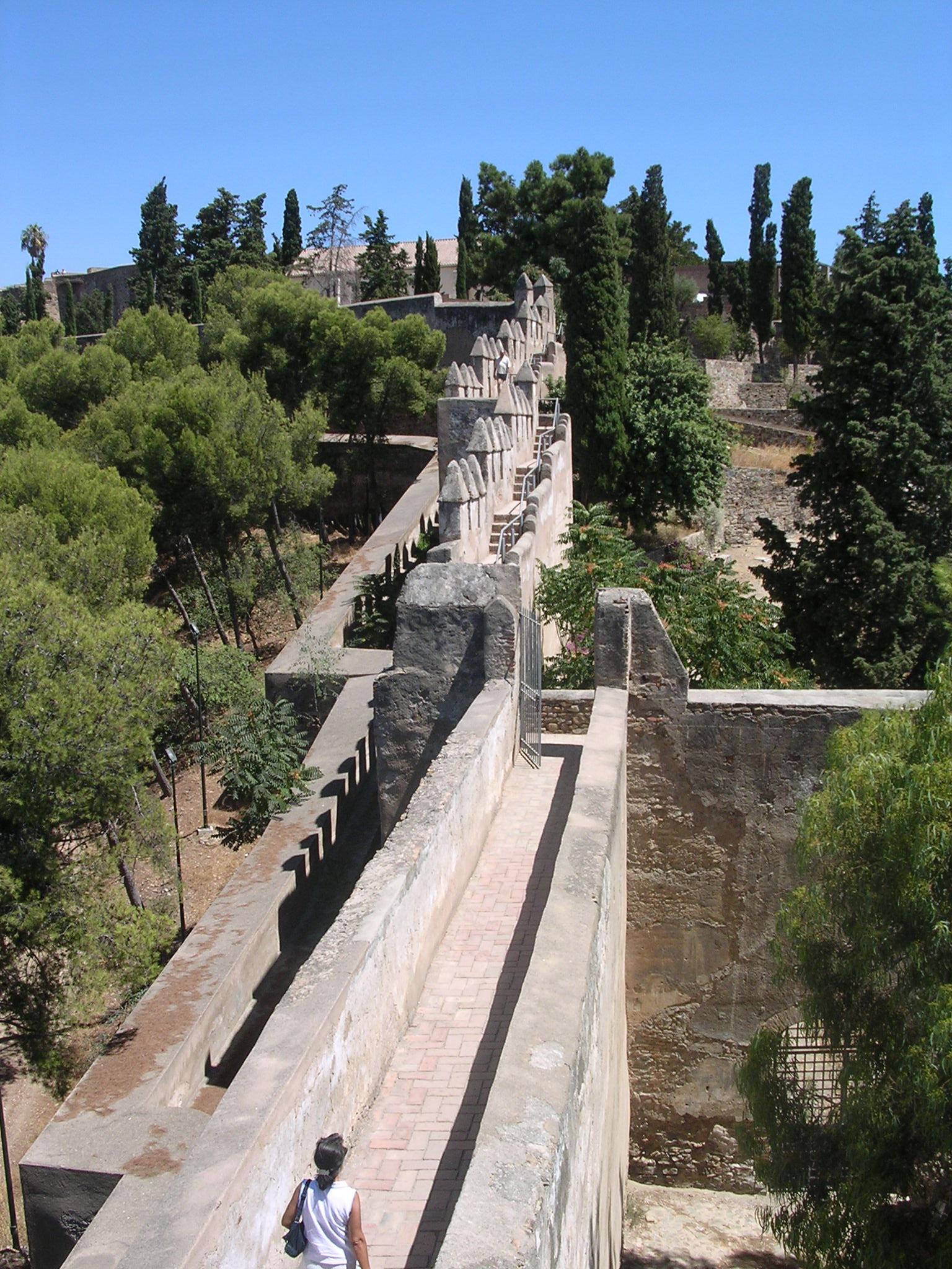 Málaga, Spain